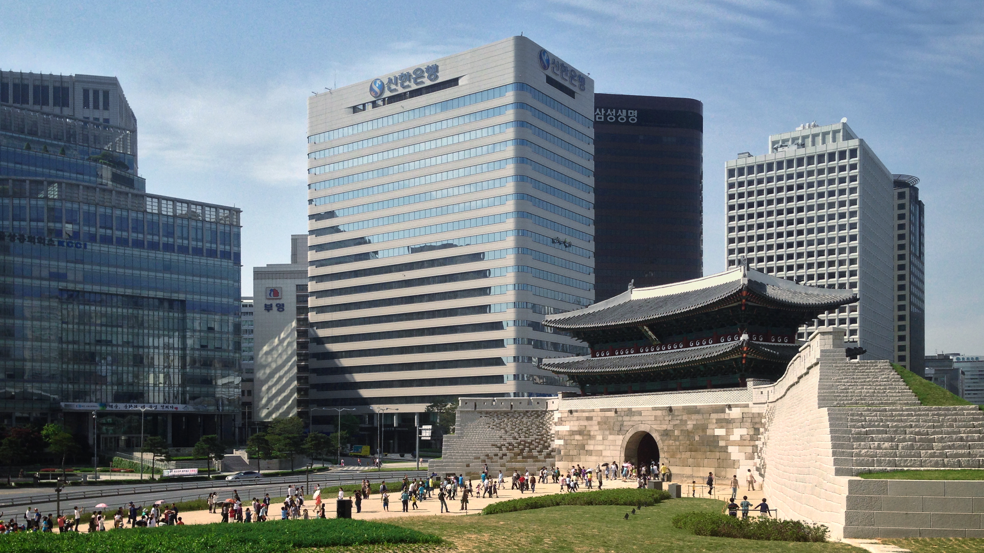 Restored Namdaemun, Seoul